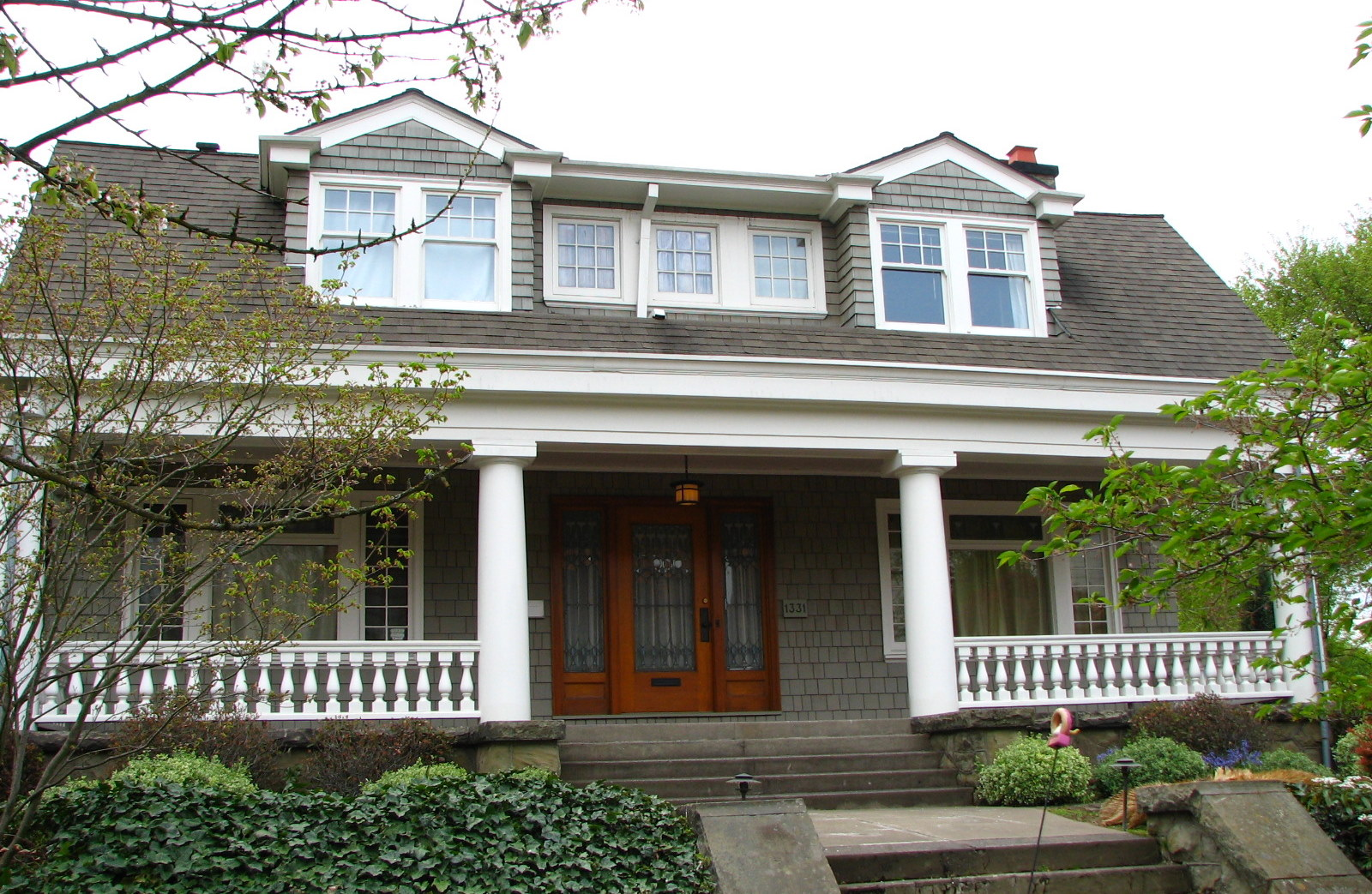 The historic Christine Becker House (built 1909), located at 1331 Northwest 25th Avenue in Portland, Oregon, United States, is listed on the US National Register of Historic Places.